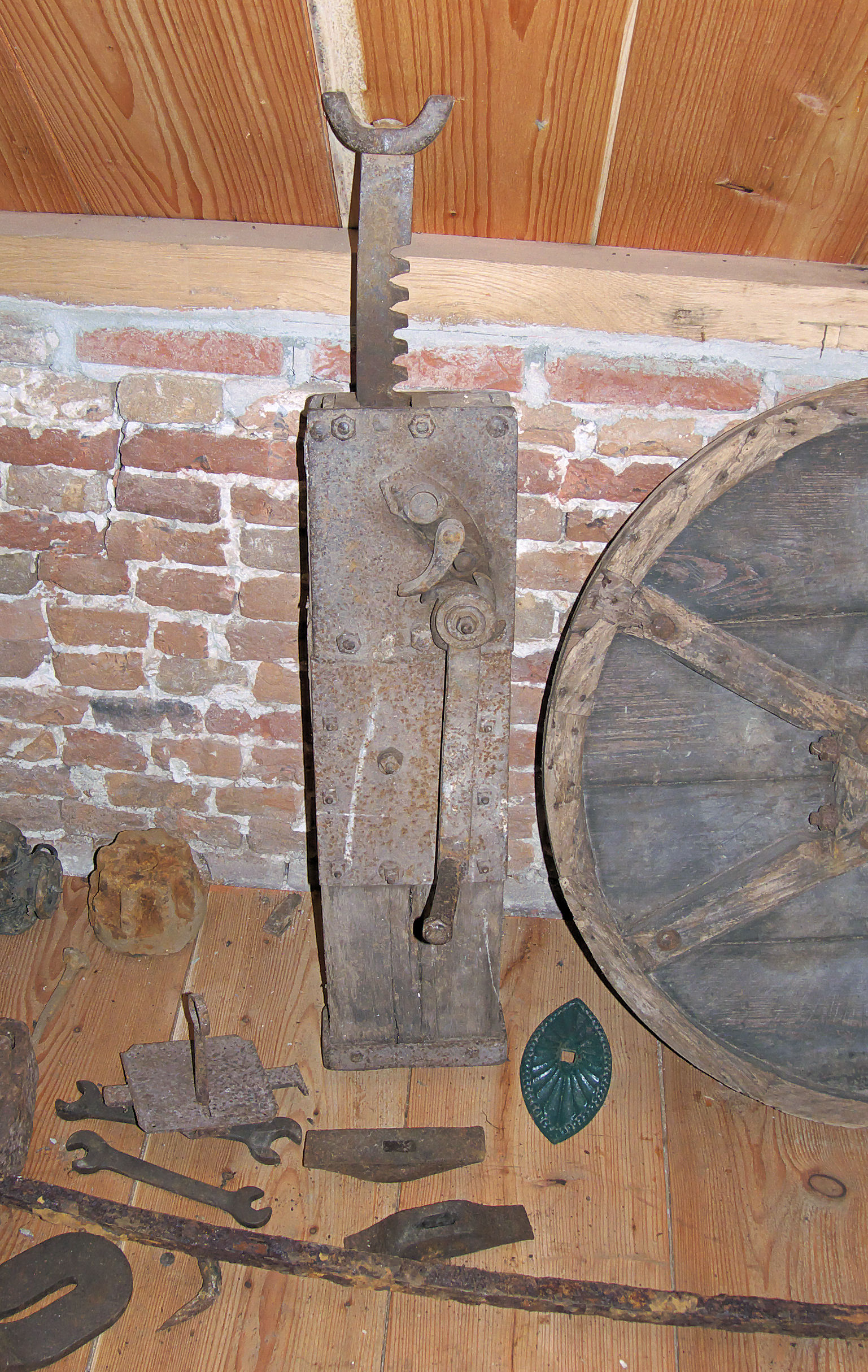 Jack (mechanical), dommekracht